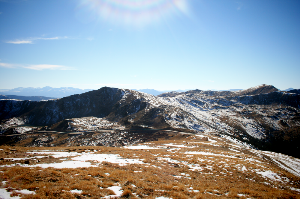 The view of Loveland Pass from the Mount Sniktau trail, near Silver Plume, CO, USA. Taken at approximately 12,400 ft above sea level.